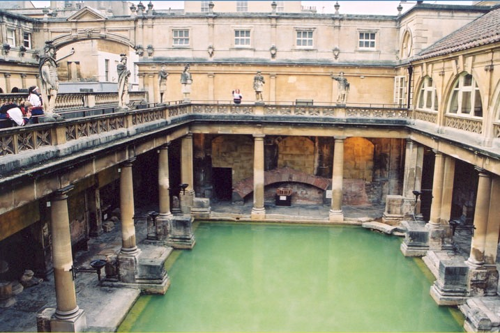 Author: Webber Source: "own work" Date: 2002